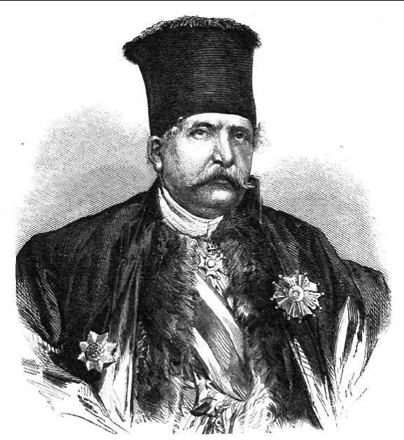 Dimitrios Voulgaris, Greek politician Sketch from the magazine National diary Vretou (Εθνικόν Ημερολόγιον Βρετού) vol 2, number 1, 1862